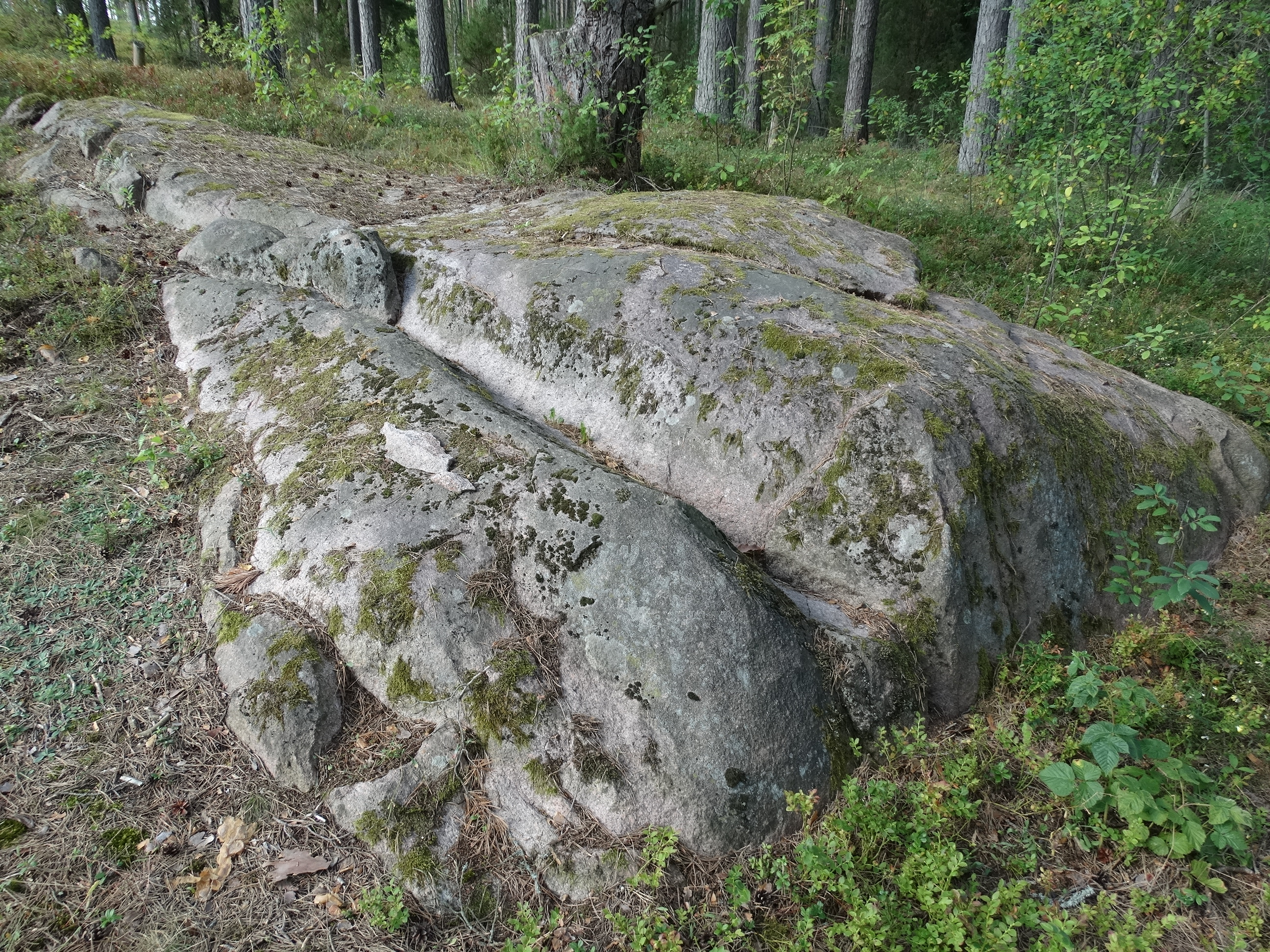 Lakaja Stone, Molėtai district, Lithuania